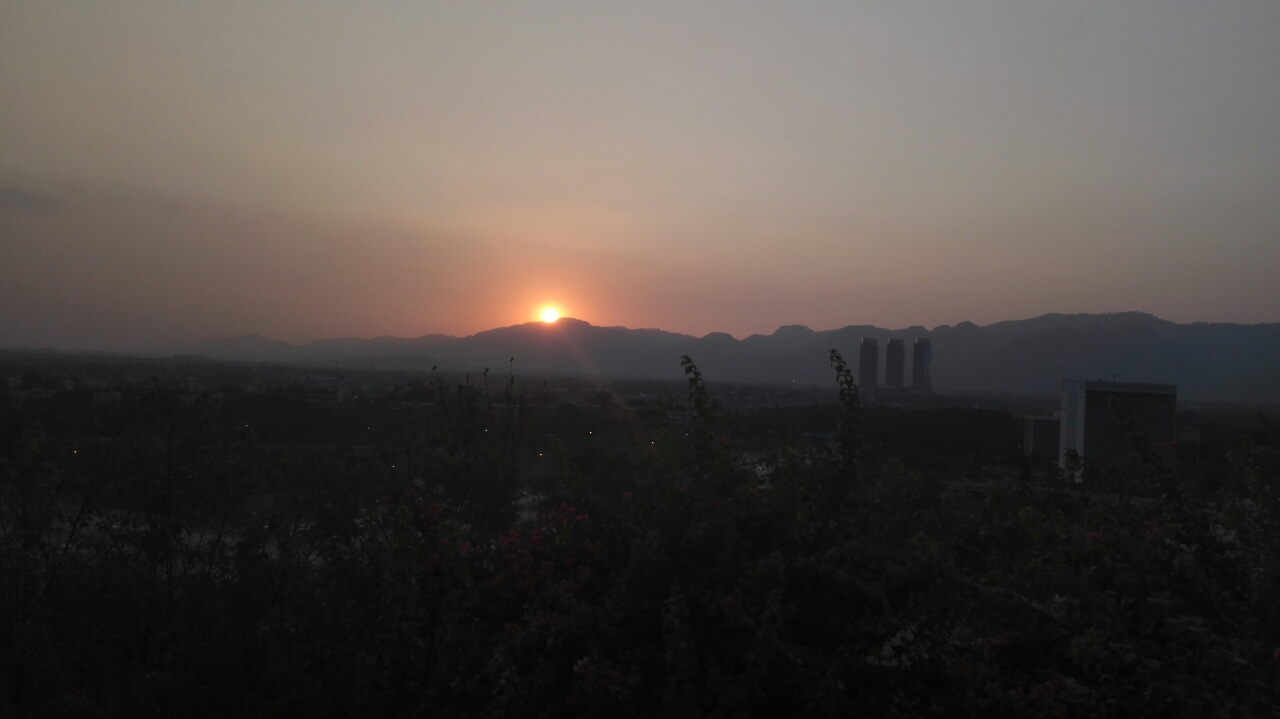 View of Margalla Hills from Shakarparian, Sunset